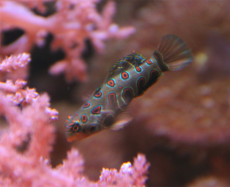 Synchiropus picturatus